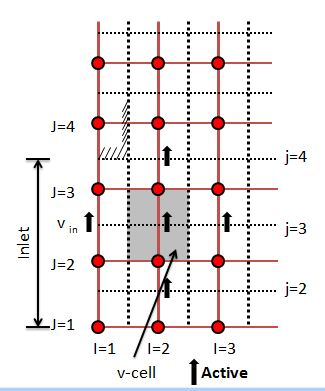 v-velocity cell at intake boundary